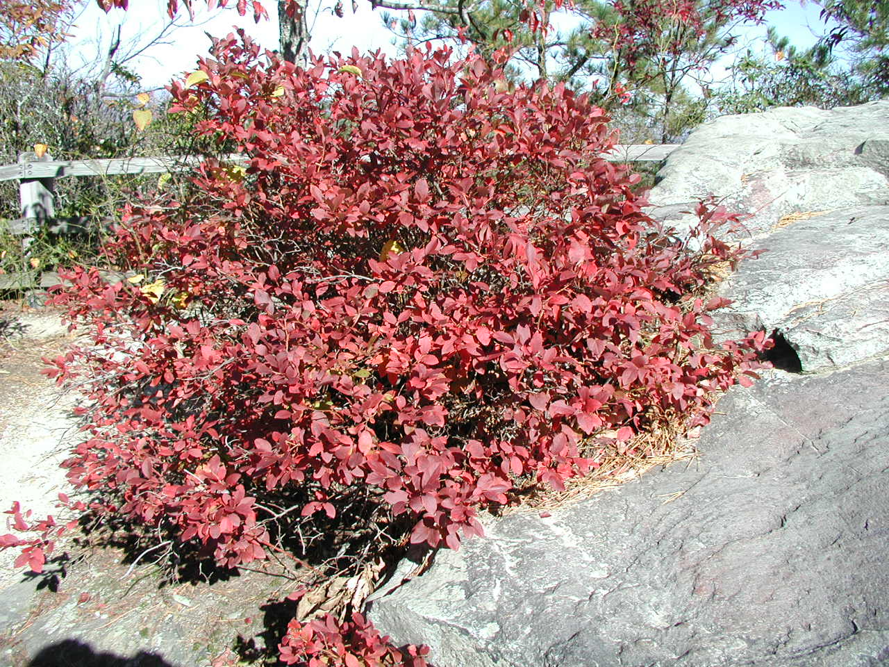 Wild Blueberry (Vaccinium) in autumn foliage taken on Pilot Mtn, NC on 10-30-2008.